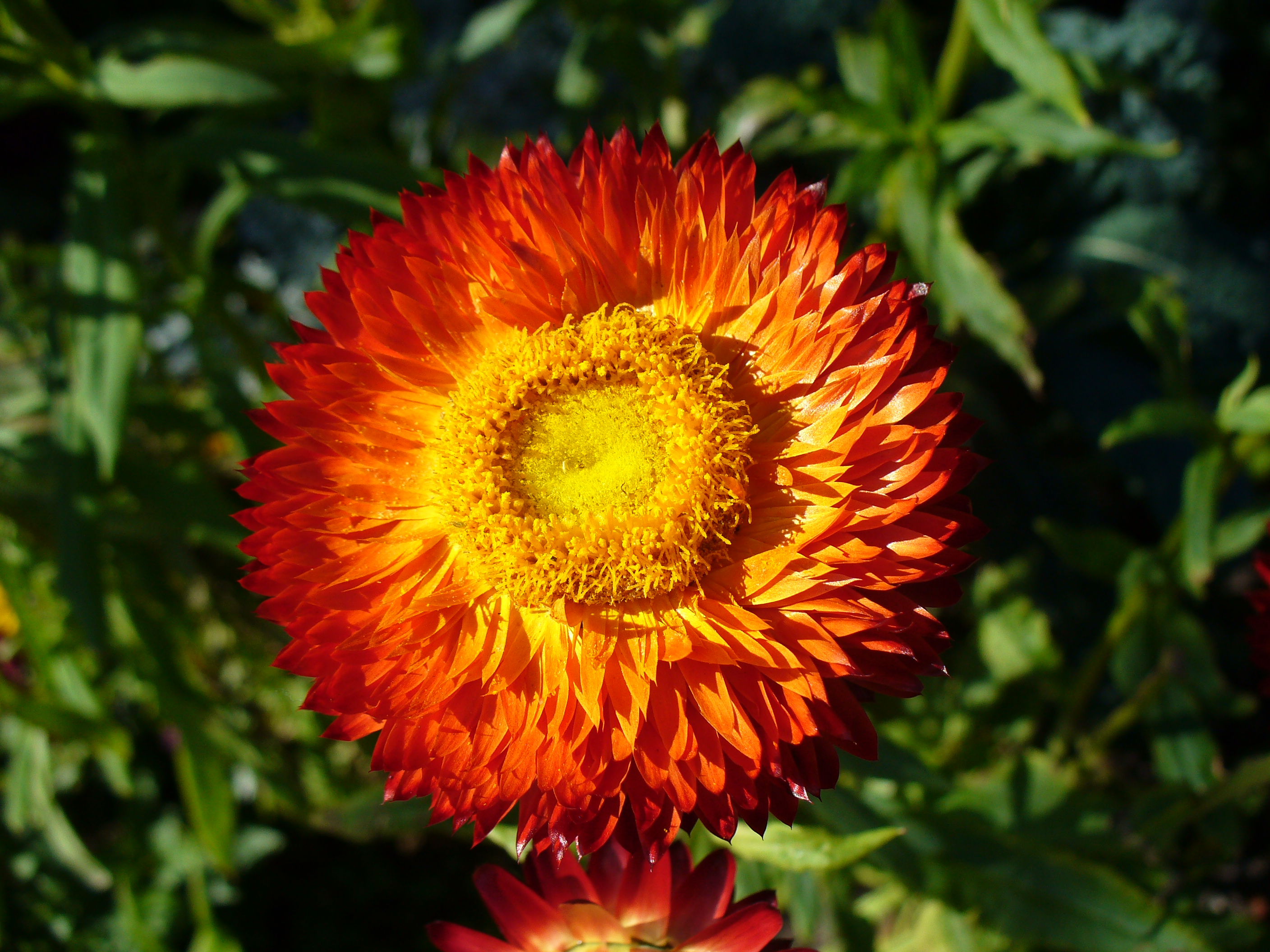 I am the originator of this photo. I hold the copyright. I release it to the public domain. This photo depicts a cultivar of Xerochrysum bracteatum.